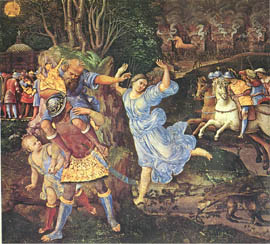 Motif of the Greek mythology (ancient)